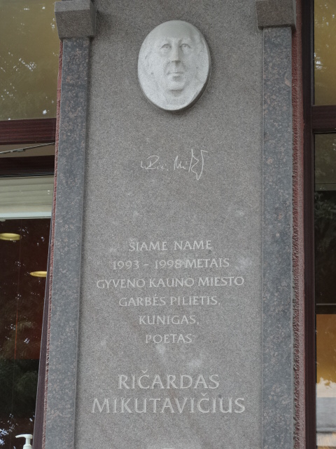 Memorial plaque to Ričardas Mikutavičius, Kaunas, Lithuania